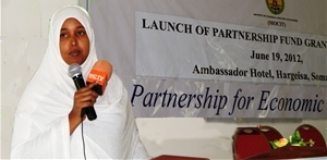 Qani Abdi Alin, founder of the Dheeman Enterprise, a business that sells specialty-made clothing in Hargeisa, at the launch of the Partnership Fund for local commercial ventures.